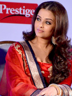 Abhishek & Aishwarya announced as the TTK Prestige Brand Ambassadors